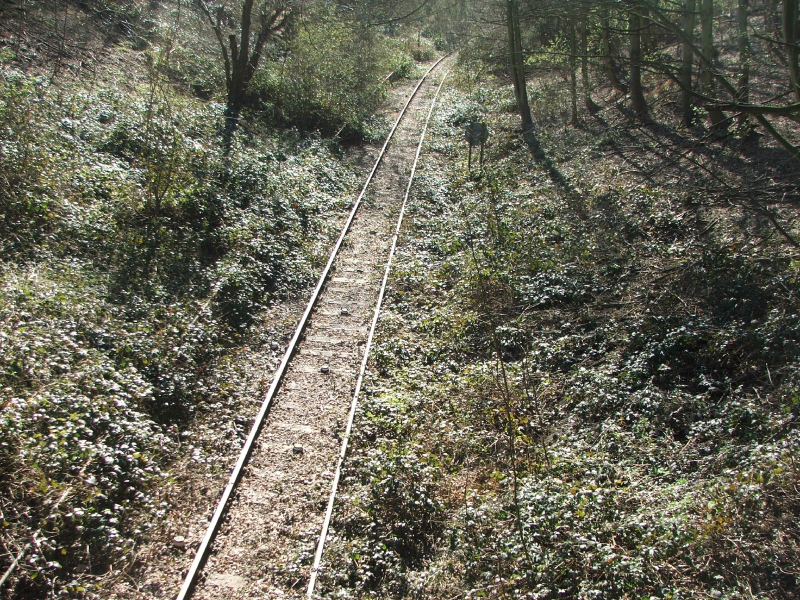 Trackbed of the Epping Ongar Railway.